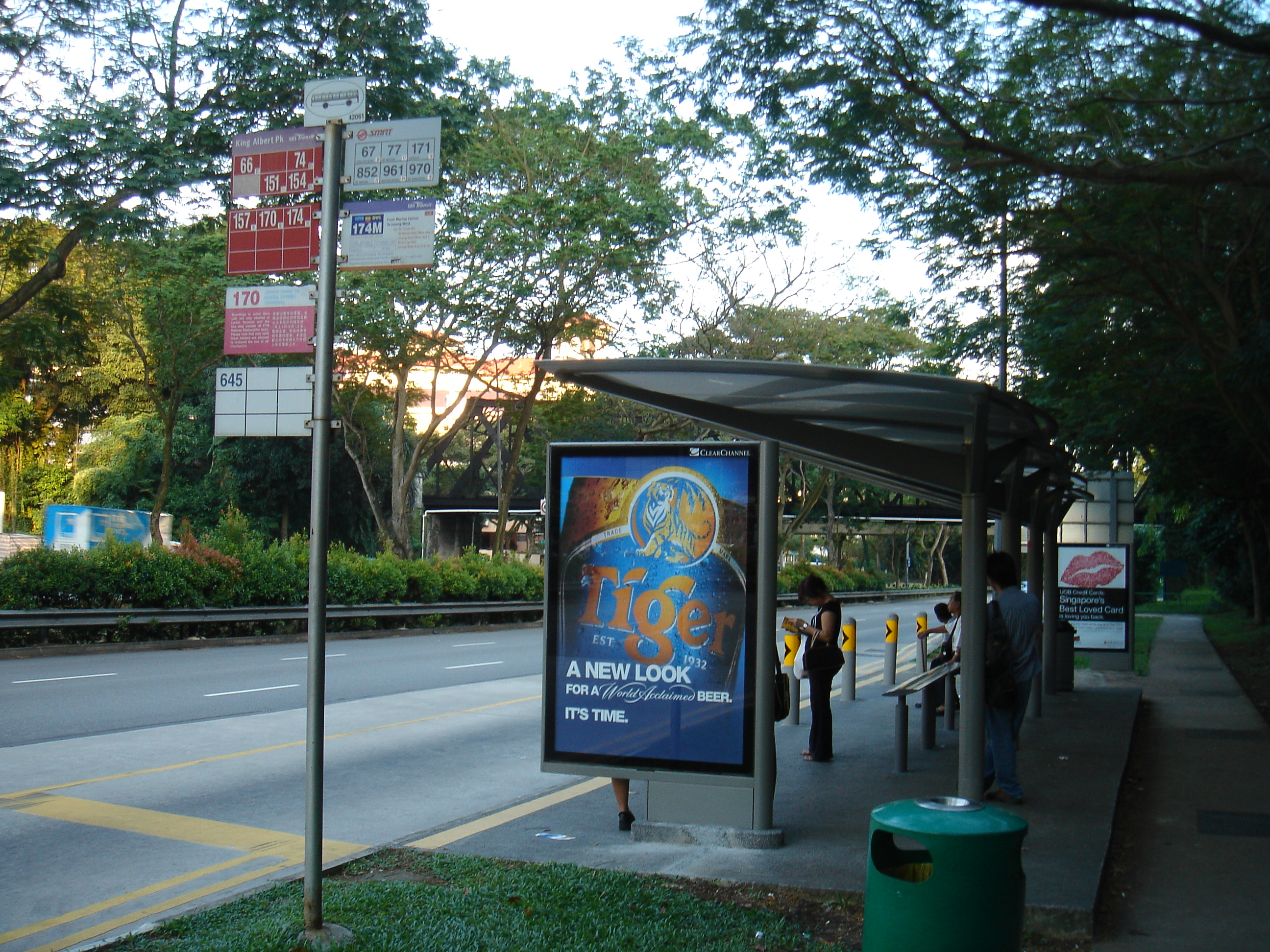 A typical bus stop in Singapore.